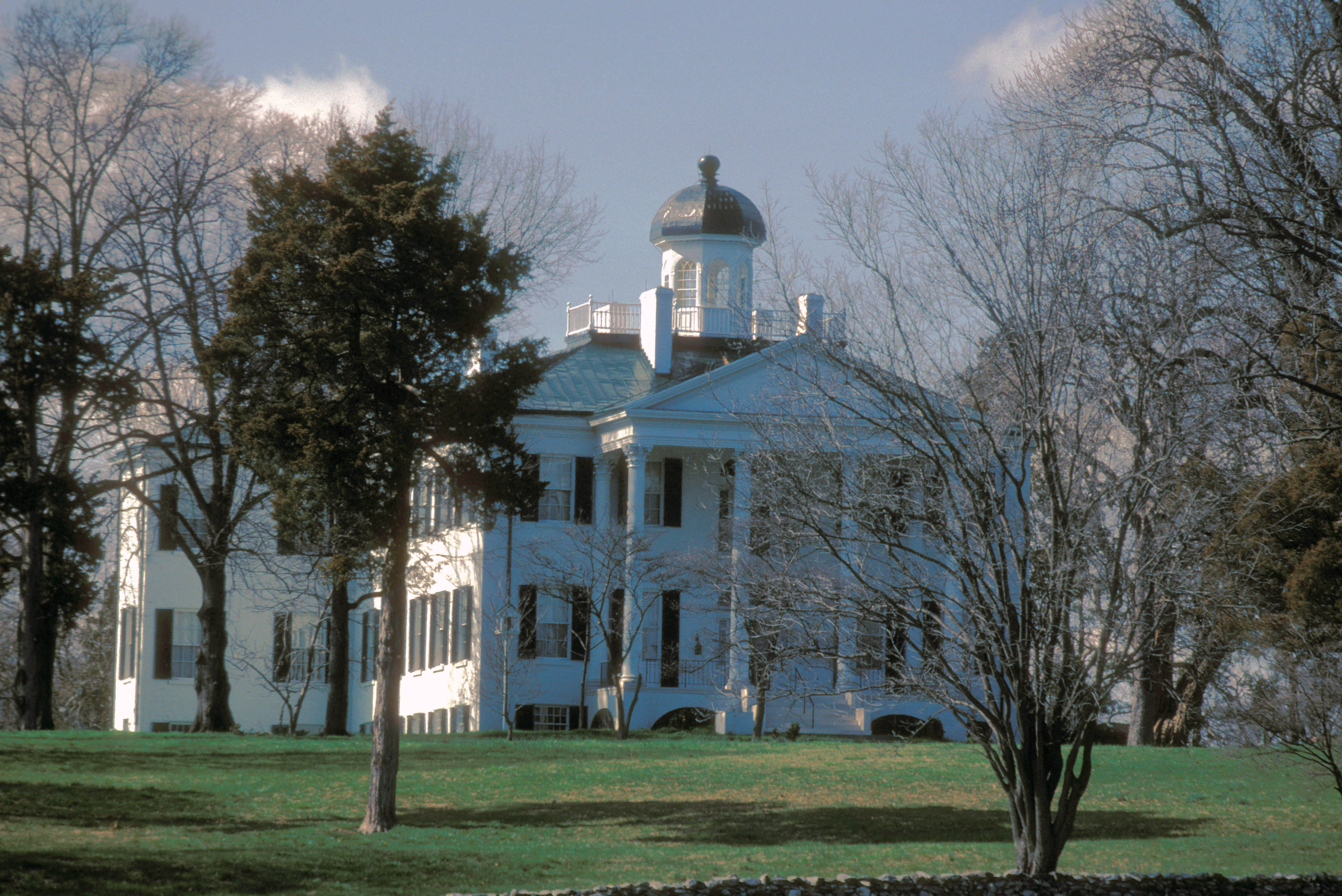 CIRCA 1833; BRICK FEDERAL & GREEK REVIVAL BUILT BY COLONEL JOSEPH TULEY. IT HAS A LARGE EAGLE OVER THE DOOR WHICH IS SAID TO BE THE REASON GENERAL PHILIP SHERIDAN SPARED THE HOUSE. THE FURNITURE OF THE WHITE HOUSE OF THE CONFEDERACY WAS STORED HERE AFTER THE WAR